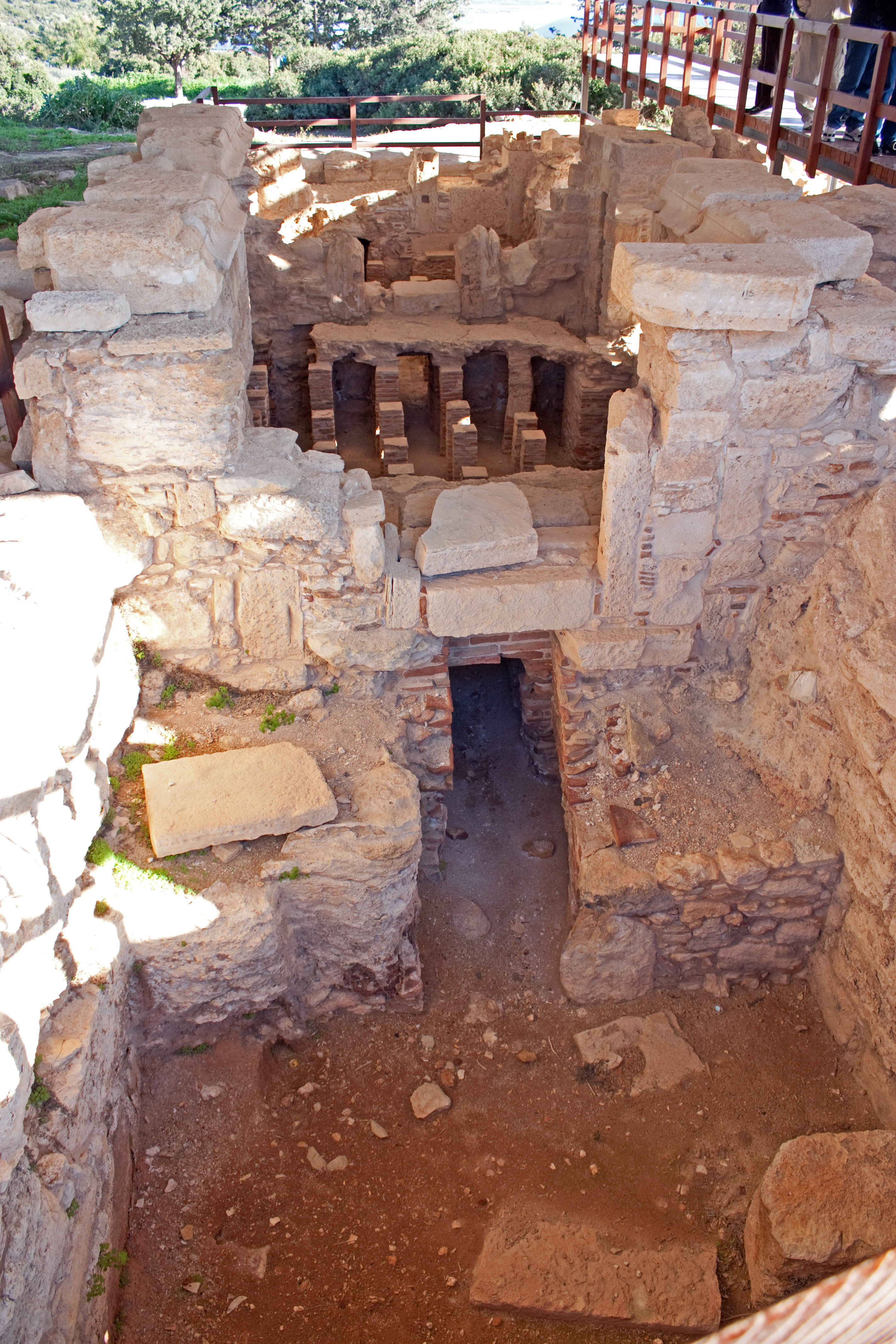 Ancient baths at the Sanctuary of Apollo Hylates in Kourion, Cyprus.